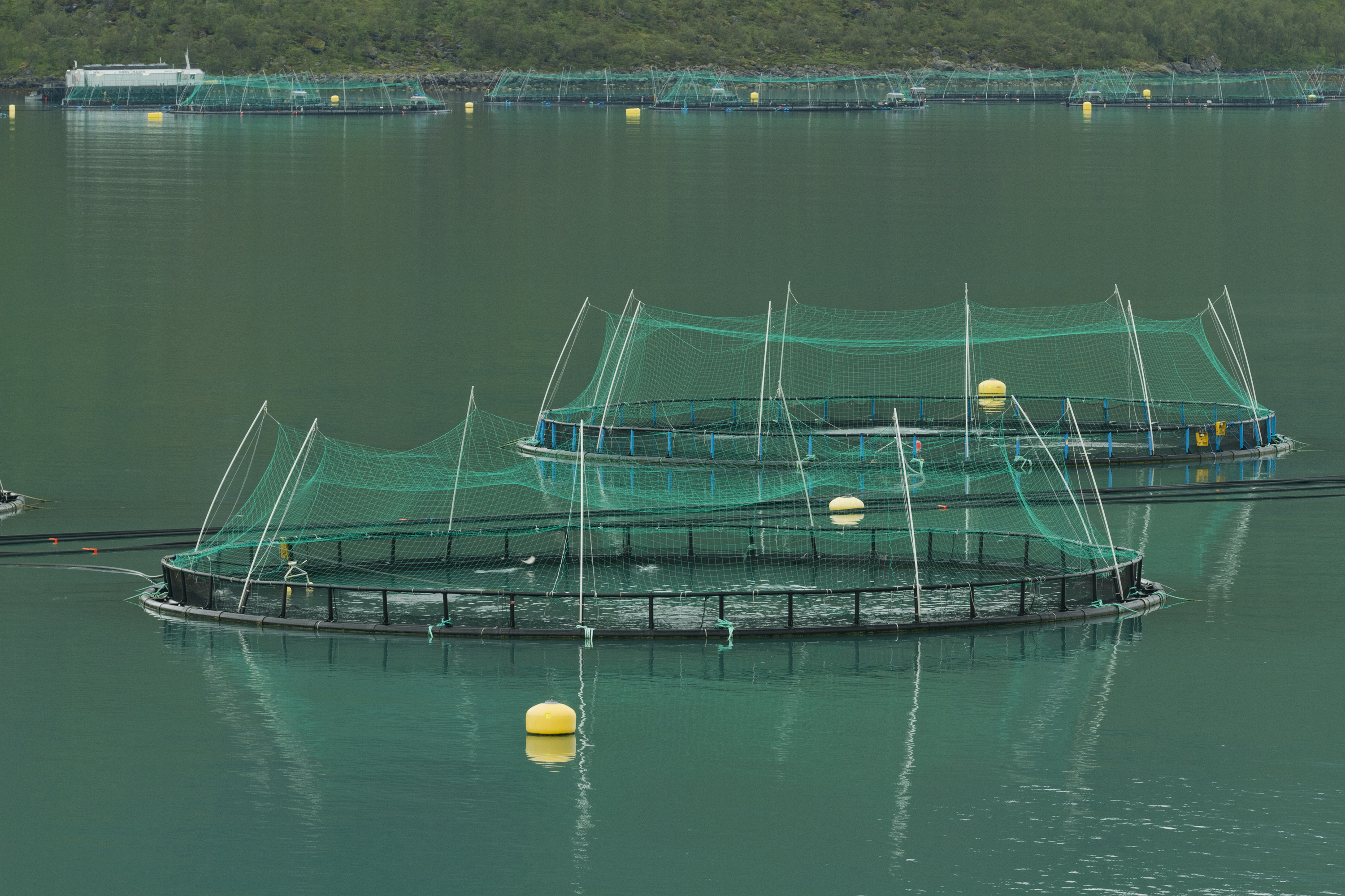 Salmon farming cages in Torskefjorden, Torsken, Senja, Troms, Norway in 2014 August.